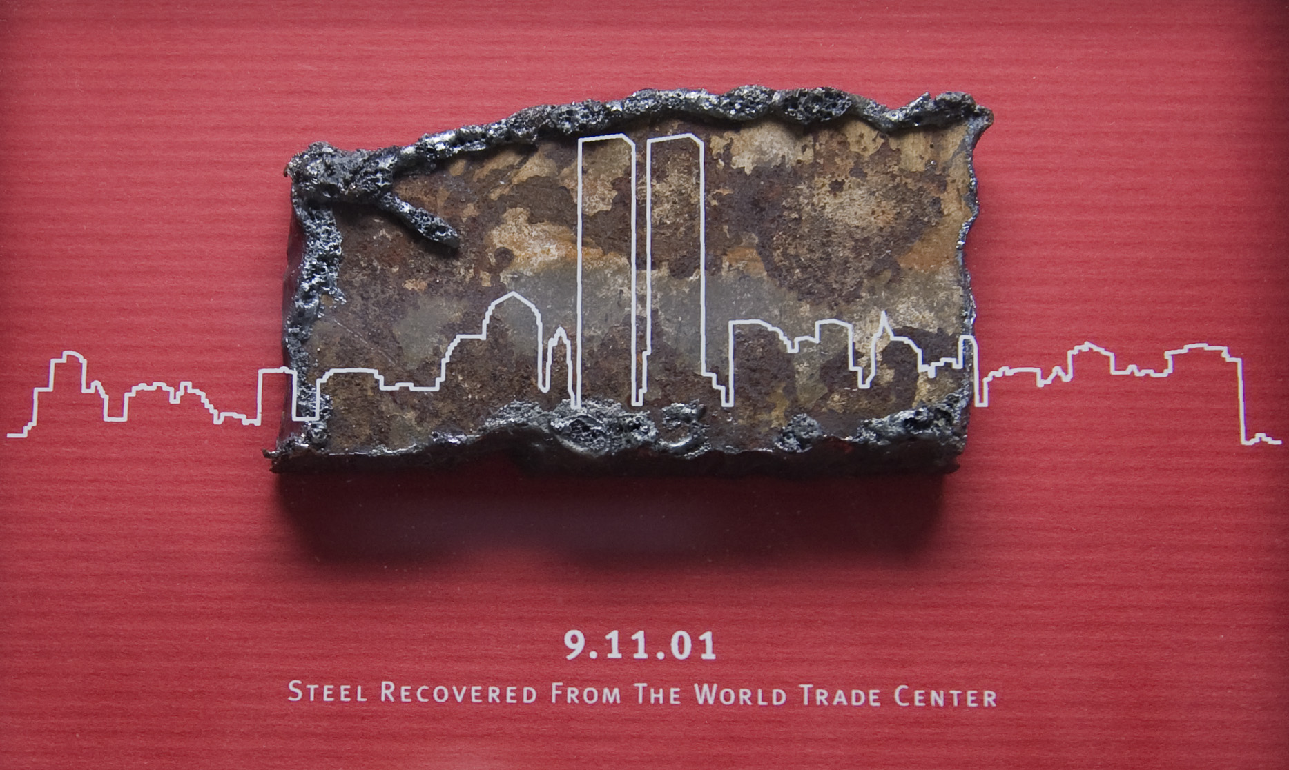 PASCAGOULA, Miss. (July 20, 2009) Steel recovered from the World Trade Center is displayed aboard the amphibious transport dock ship Pre-Commissioning Unit (PCU) New York (LPD 21). The glass case of the display is etched with the New York skyline before the Sept. 11, 2001 terrorist attacks that brought down the World Trade Center buildings. (U.S. Navy photo by Mass Communication Specialist 2nd Class Jhi L. Scott/Released)